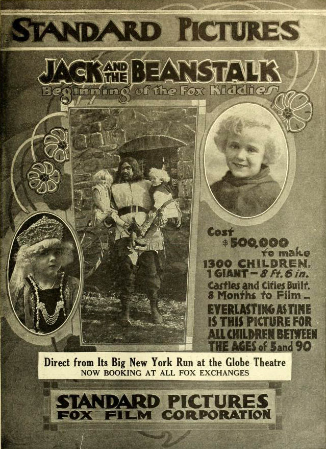 Advertisement in Moving Picture World for the American film Jack and the Beanstalk (1917) with Francis Carpenter and Virginia Lee Corbin.